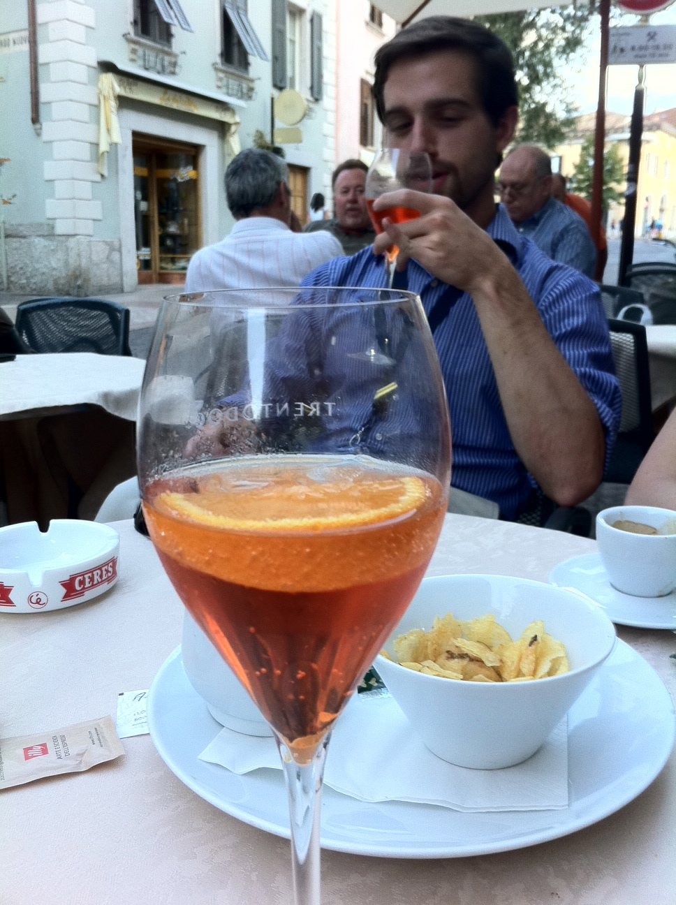 A spritz drink served in Trento, Italy.